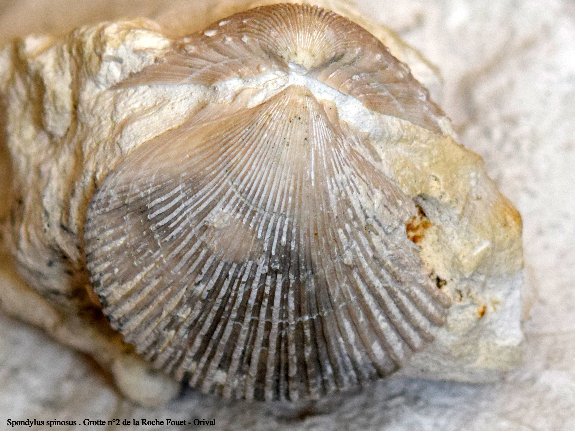 This nice spondyle was found during a speleological visit.